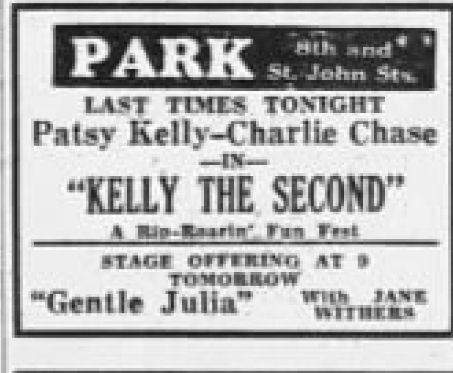 Park Theater advertisement for the American romantic comedy film Kelly the Second (1936) - 8 Oct. 1936 Morning Call, Allentown